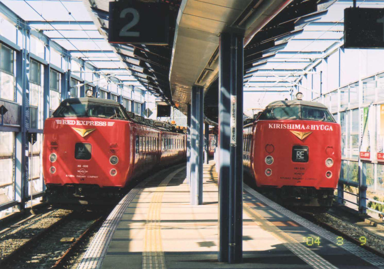 Platform at Miyazaki Airport Station